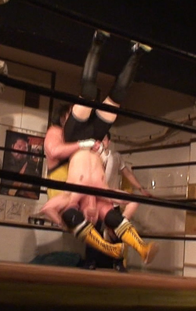 Drill a Hole Pile Driver